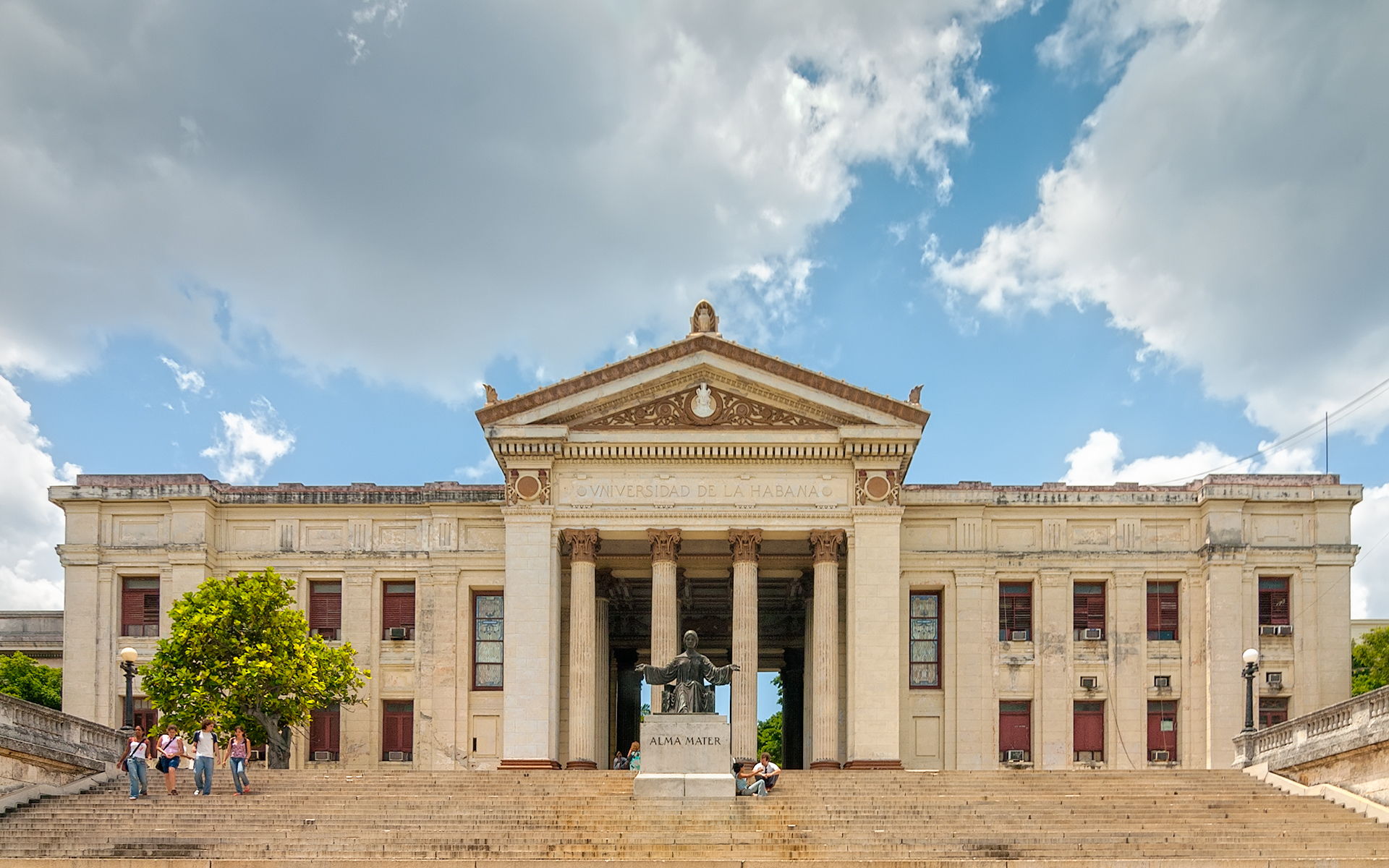 Front view of Universidad de La Habana